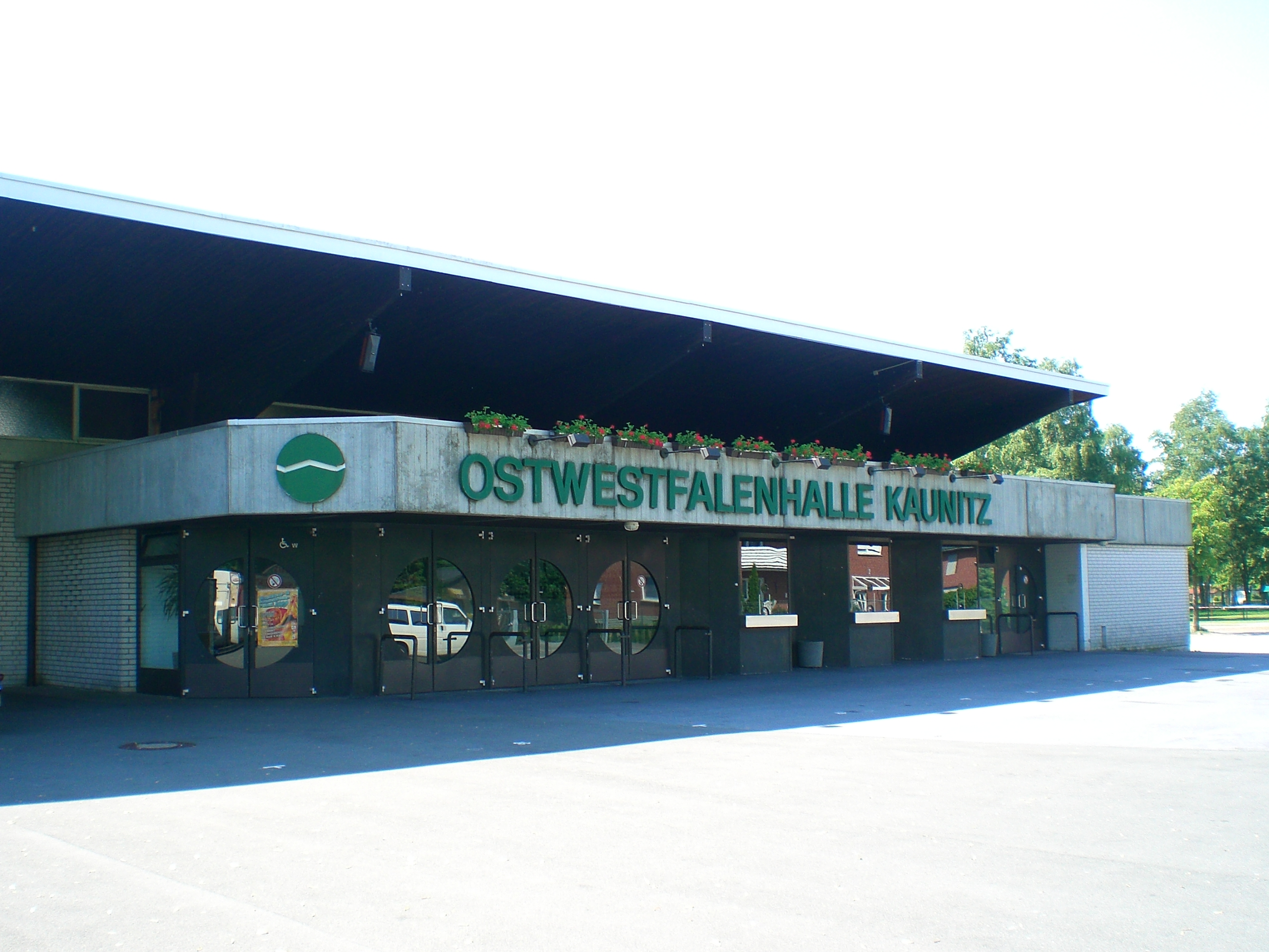 View to the main entrance of the Ostwestfalenhalle in Kaunitz a district of Verl.